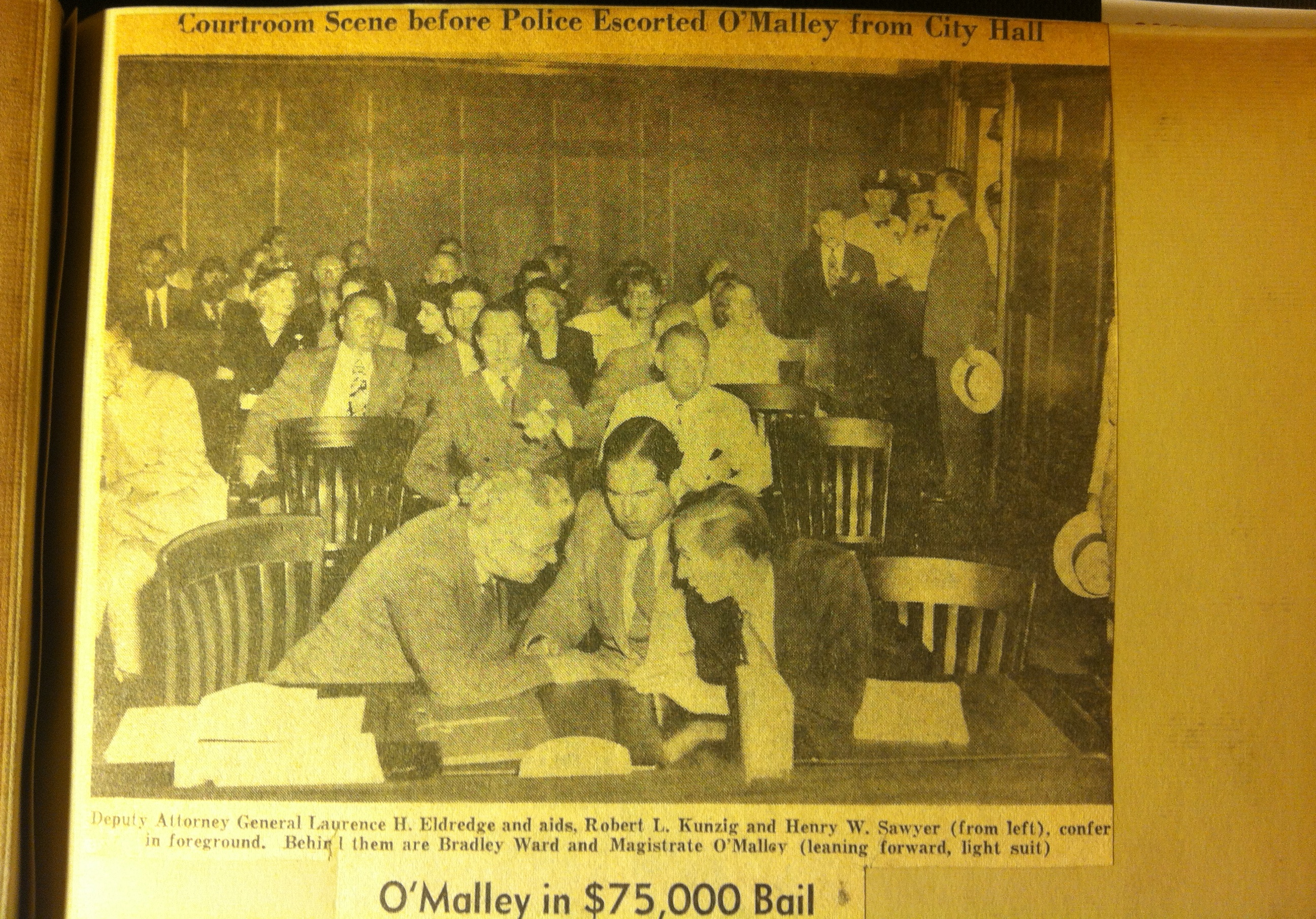 Image from my grandfathers' (Laurence H Eldredge) portfolio of news articles of The O'Malley Case